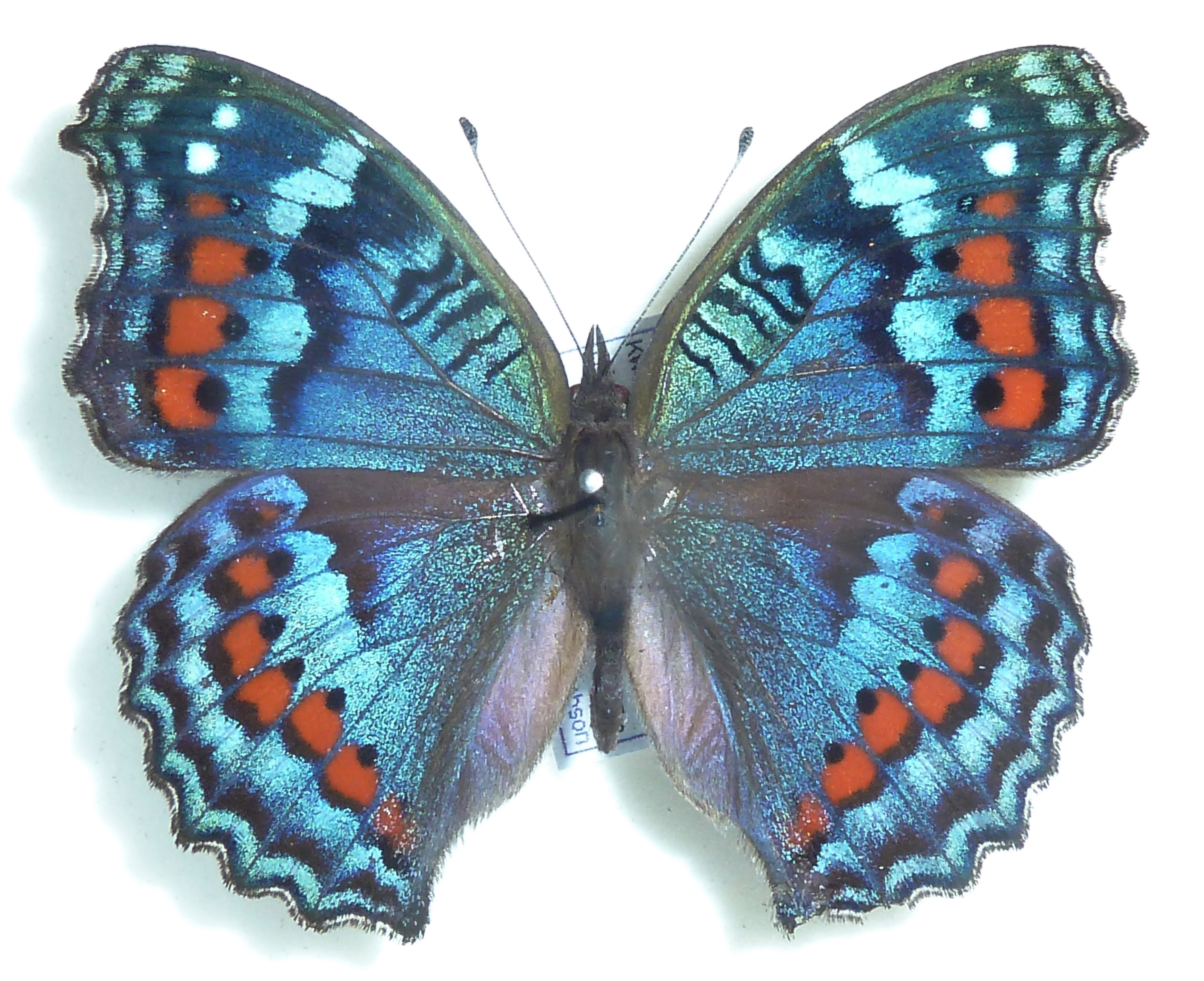 Dry-season female of the Gaudy commodore in the collection of J Dobson